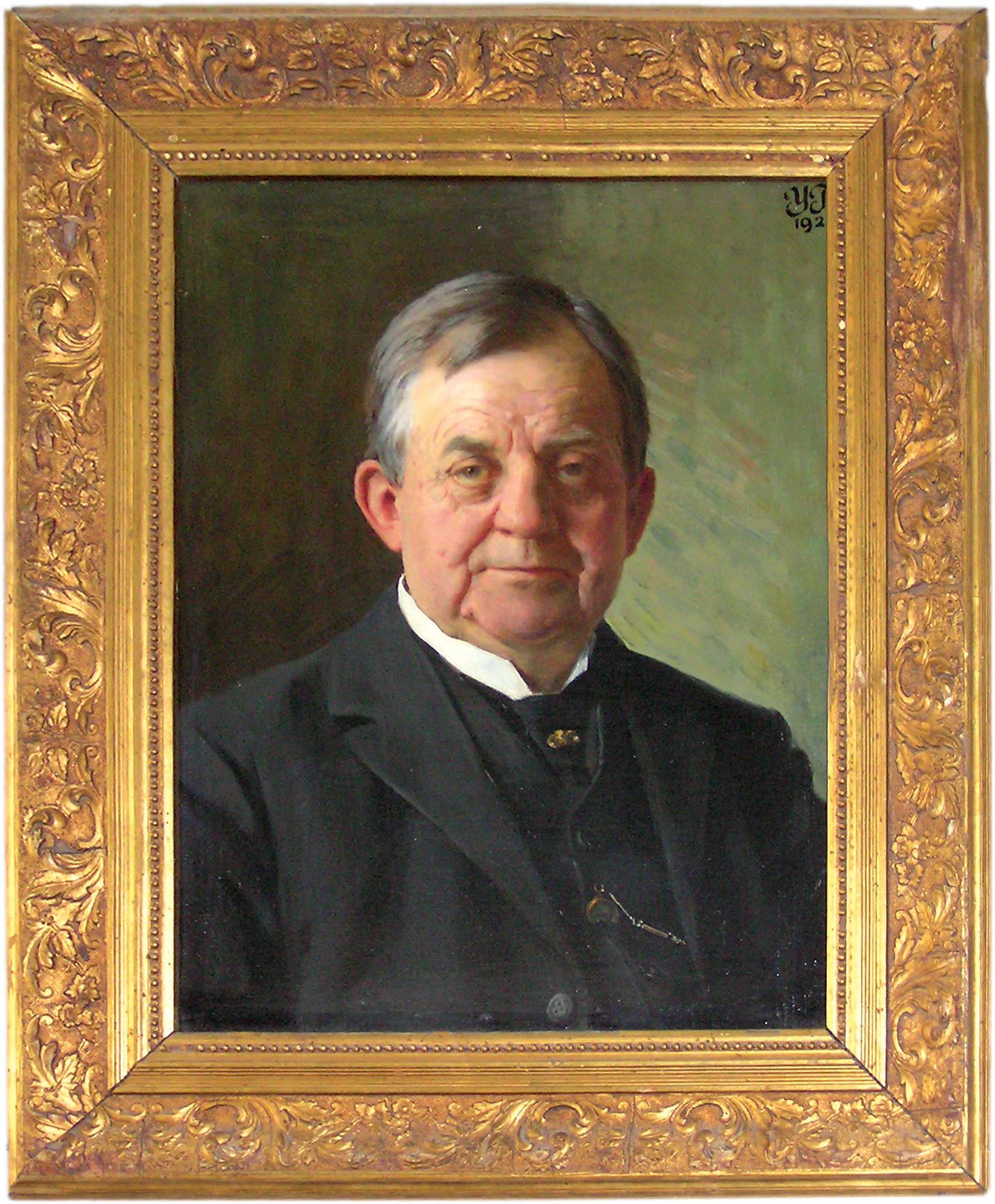 Portrait of actor Pera Dobrinović, painted by Uroš Predić, oil canvas, 1921 Srpski (latinica): Portret glumca Pere Dobrinovića, slikar Uroš Predić, ulje na platnu, 1921. Српски (ћирилица): Портрет глумца Пере Добриновића, сликар Урош Предић, уље на платну, 1921.